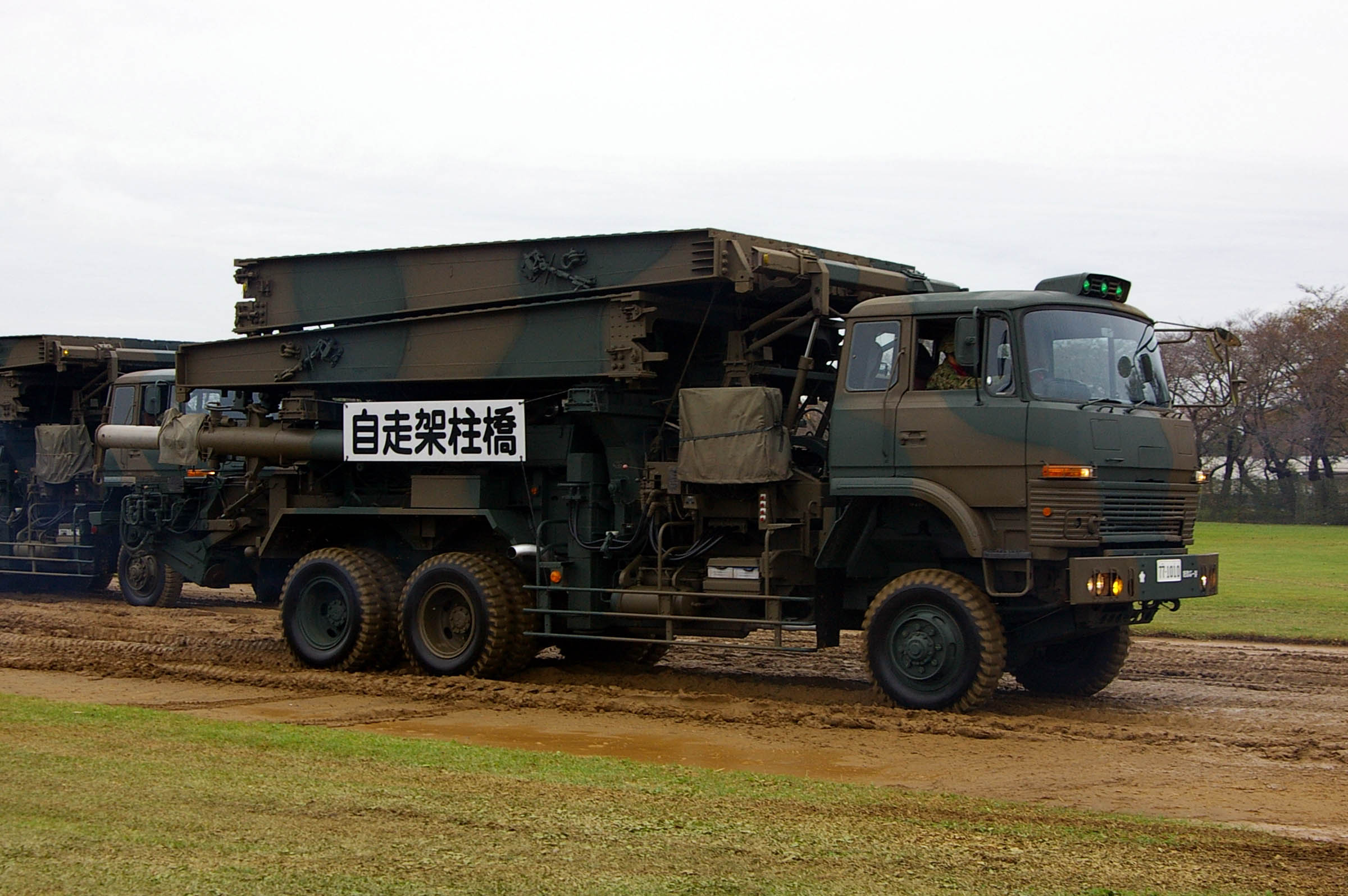 JGSDF Type_81_self_propelled_bridge.Taken by Los688,at Camp Katsuta,25-Oct-2008.PD-self